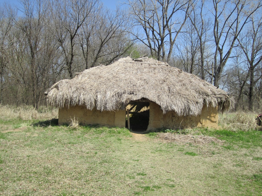 Photo of a reconstructed house, ca. 1200, of the inhabitants of the Spiro mound town and ceremonial center.